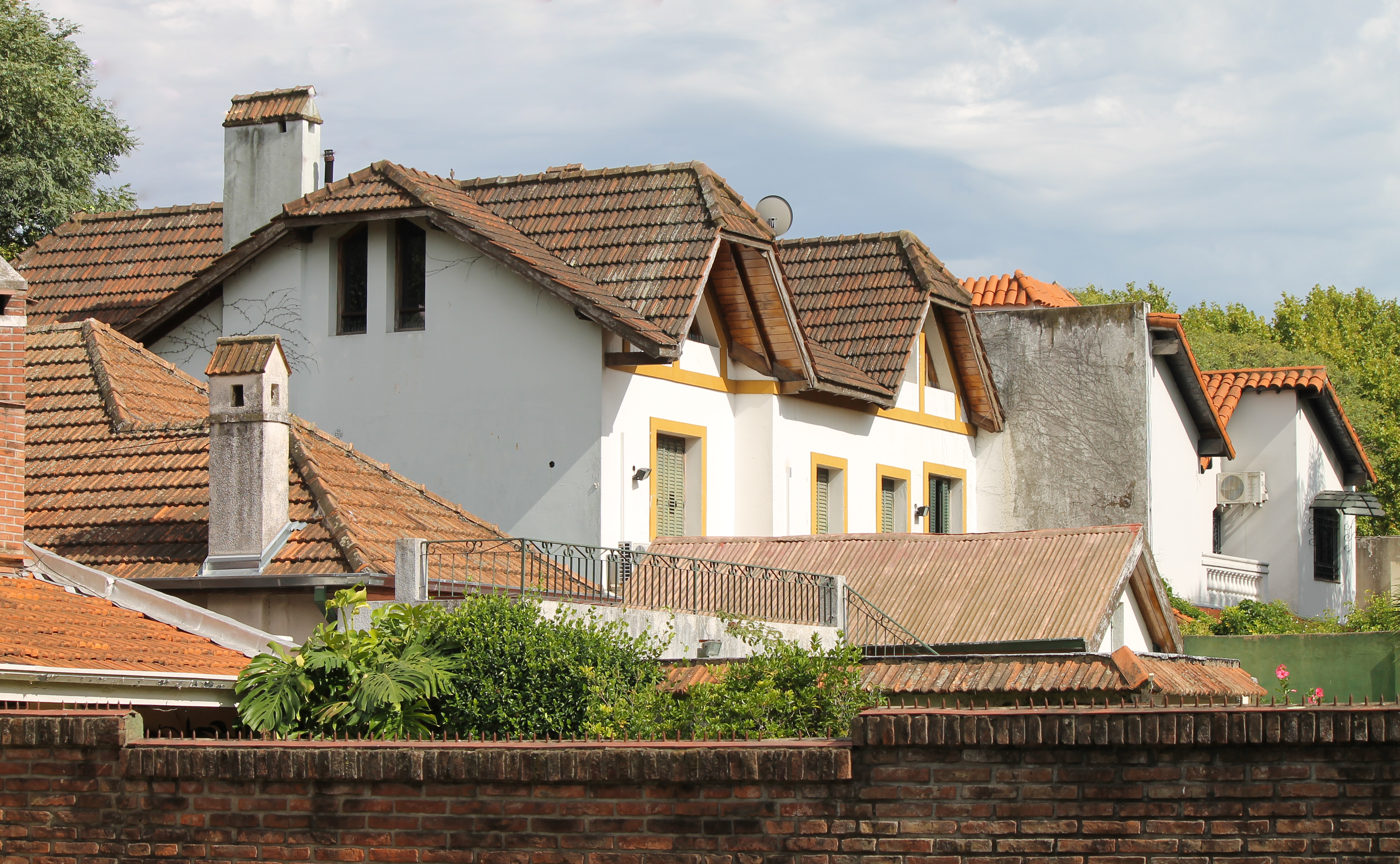 Roofs in Florida, Buenos Aires Province